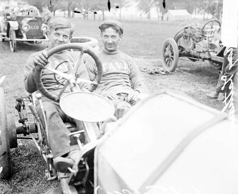 Automobile driver, Monckmeir and mechanic Latham sitting in a Staver automobile parked on a field in Elgin during an automobile race c. August 28,1911